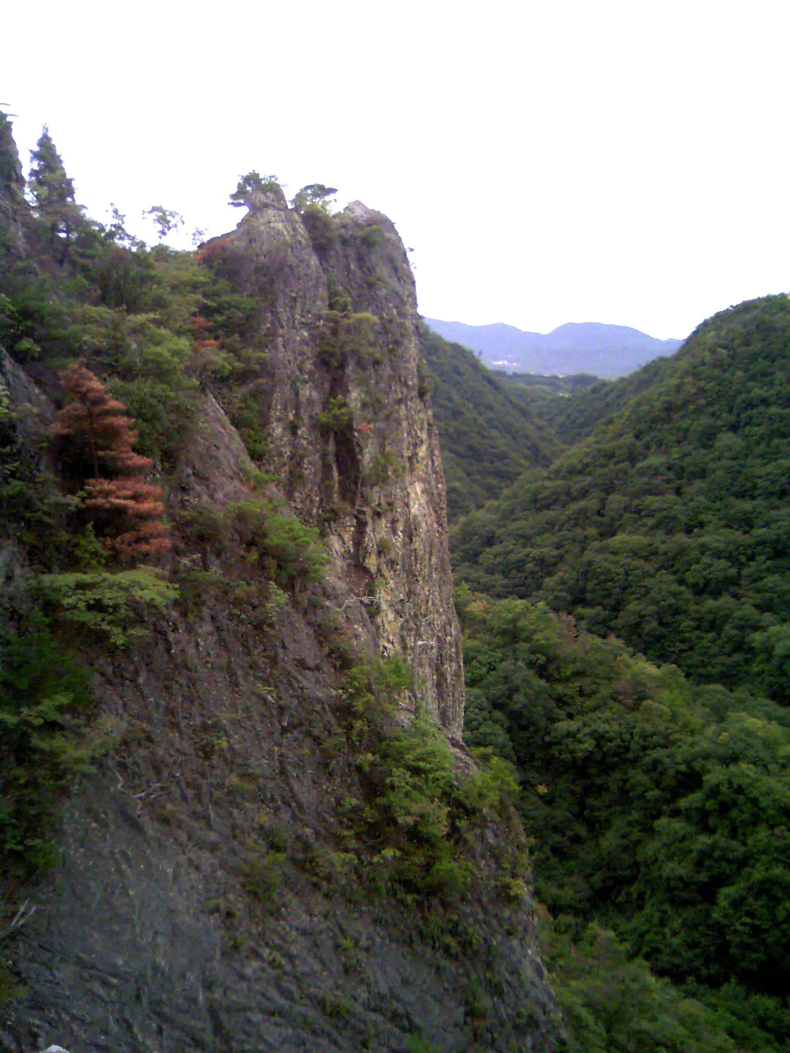 Hyakujoiwa Rock, at Kamakurakyo Valley, at Rokko Mountains, Hyogo, Japan.